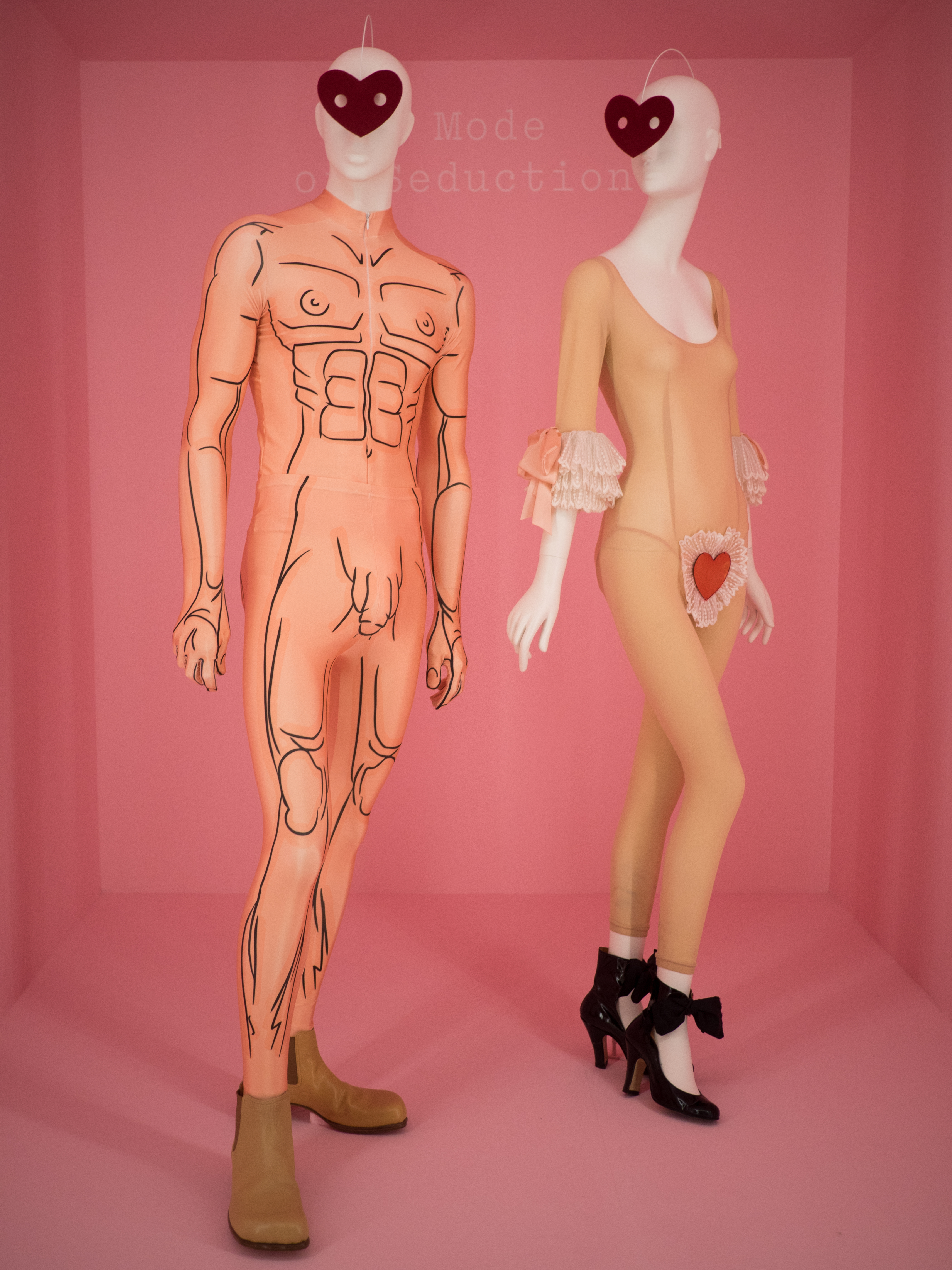 Left by Walter Van Beirendonck, spring/summer 2009. Right by Vivienne Westwood, fall/winter 1989–90.Camp: Notes on Fashion exhibit at the Met